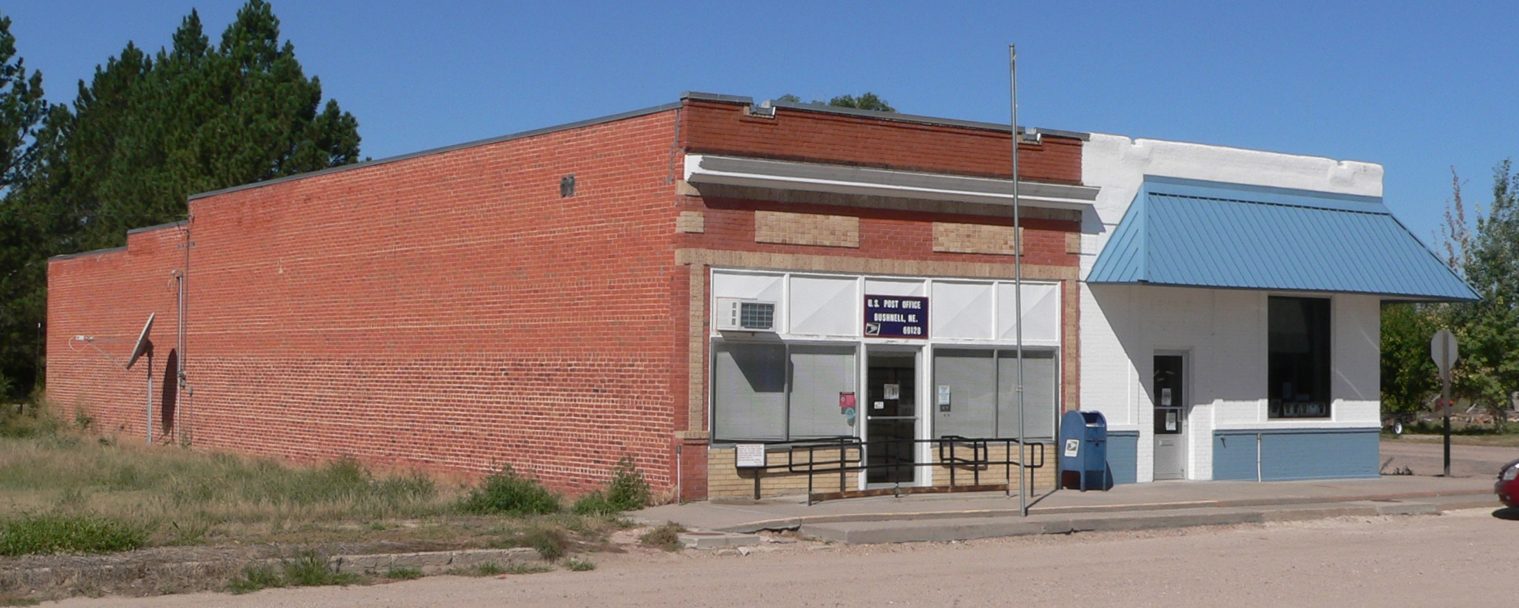 Post office (brick, at left) and village office (white, with awning, at right) in Bushnell, Nebraska.